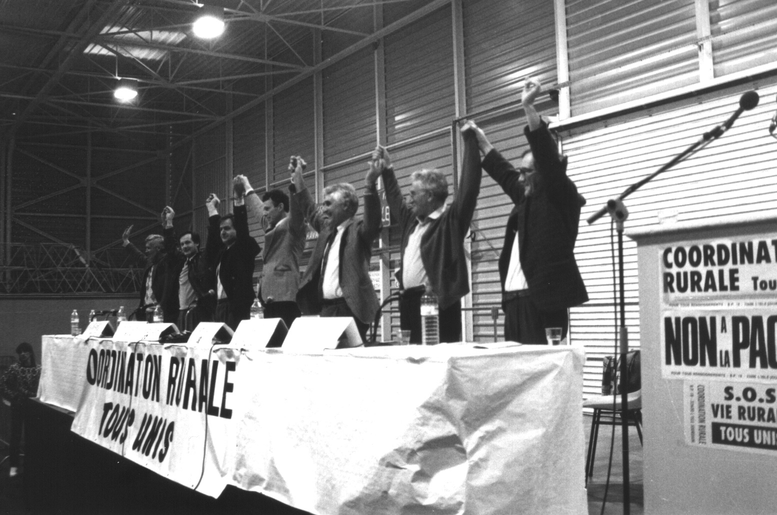 Les fondateurs de la Coordination rurale à la tribune en 1992 à Agen, avec Philippe Arnaud (au centre) et Jacques Laigneau (à droite).